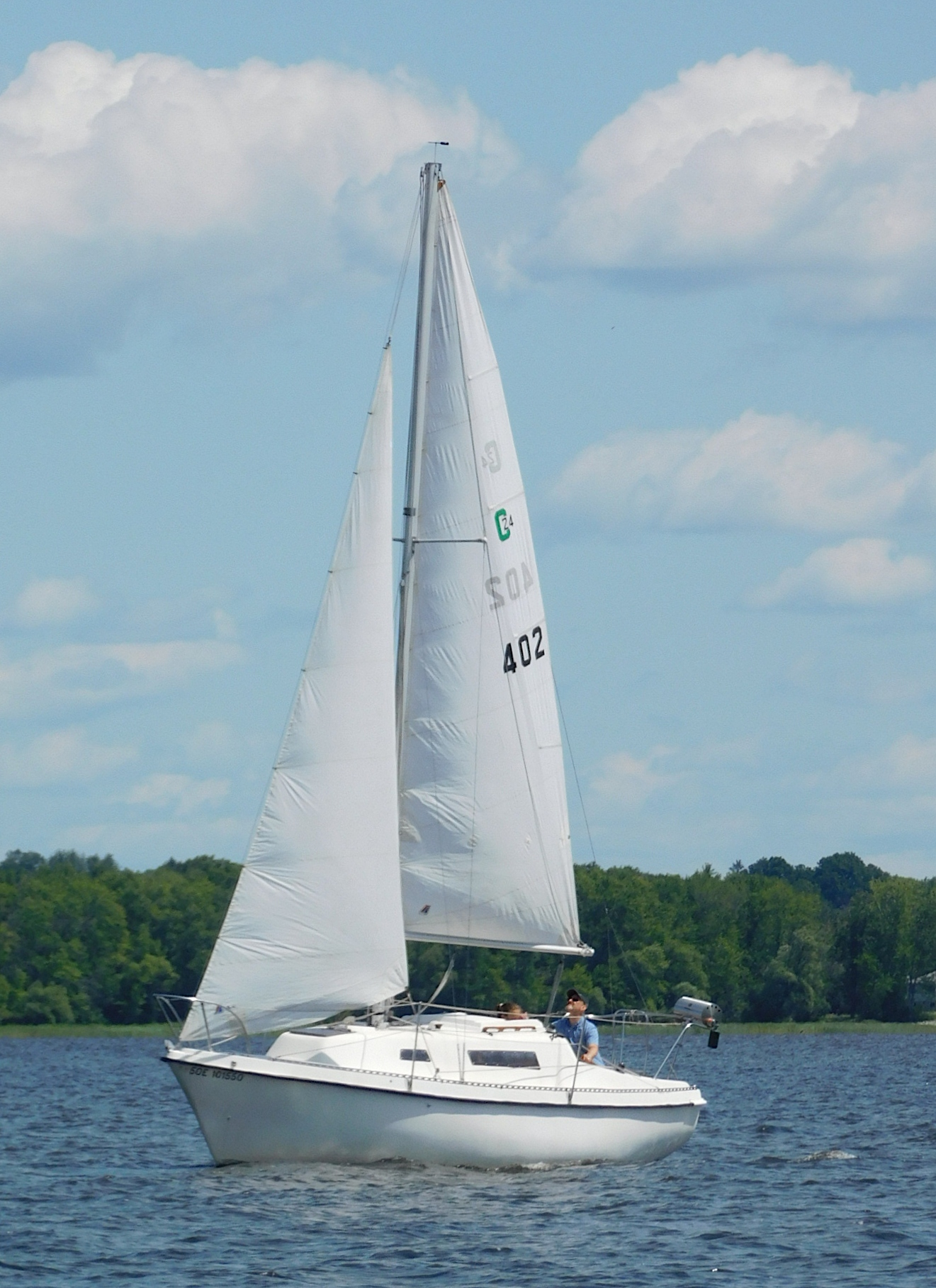 A Challenger 24 sailboat named Alcyone.